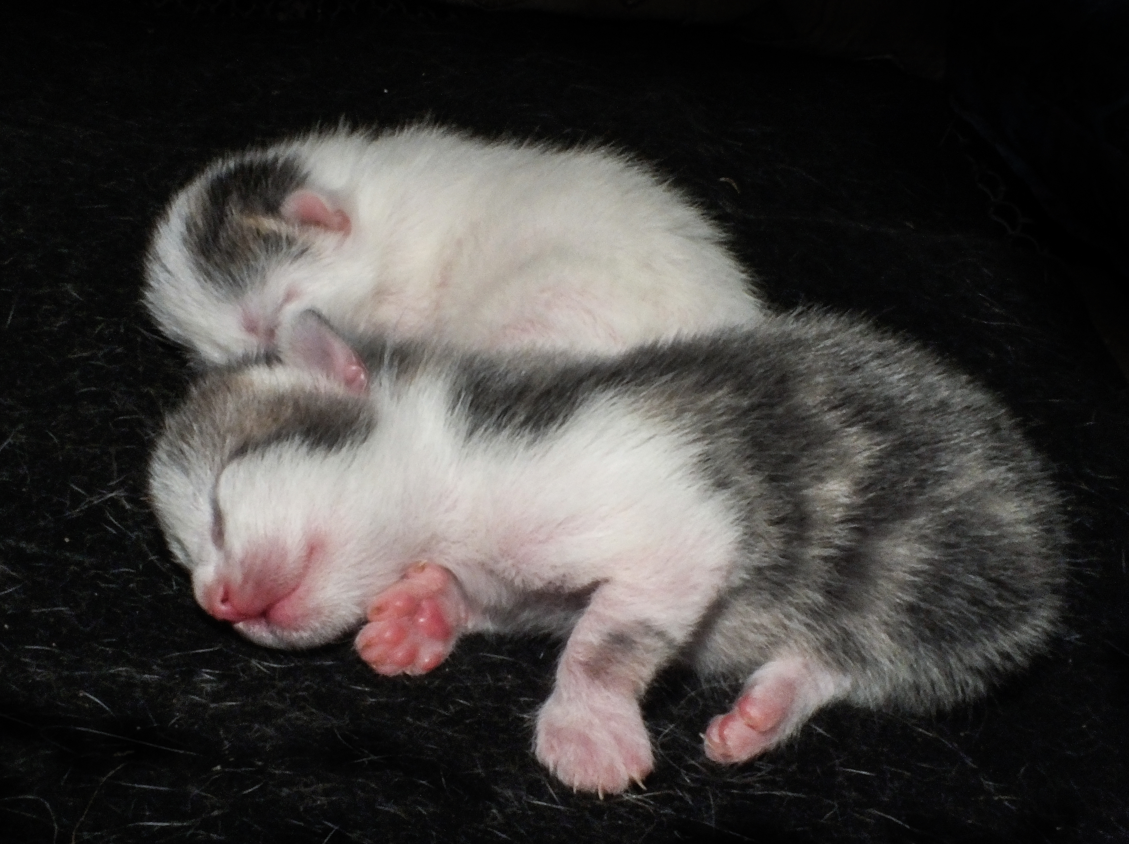 4 days old kittens